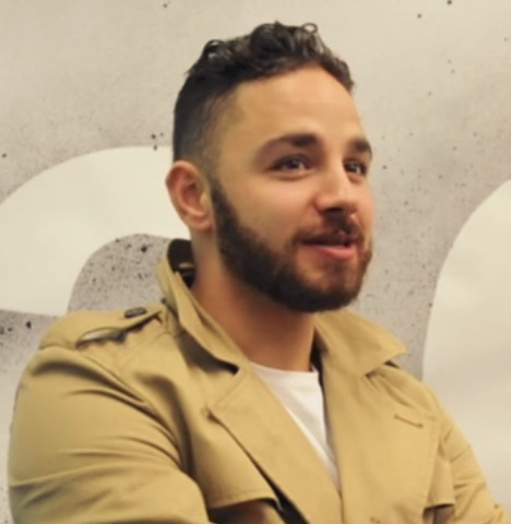 English actor Adam Thomas interviewed by students of Ullswater Community college at their annual Prize Day in 2014